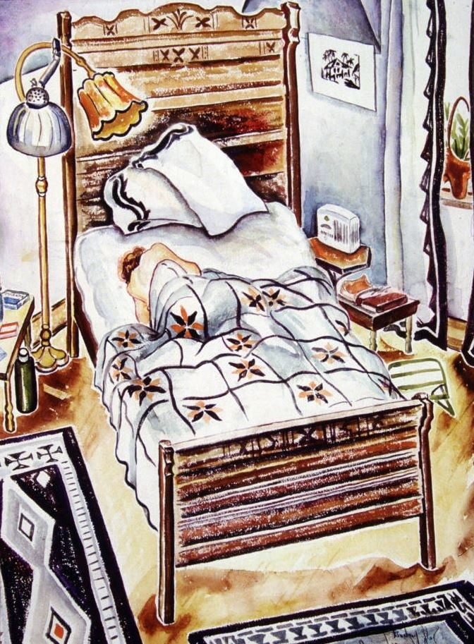 1939 painting by Eve Drewelowe